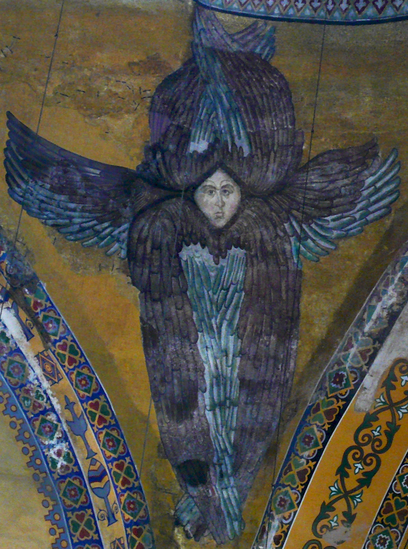 Seraph (Hagia Sophia, Istambul)